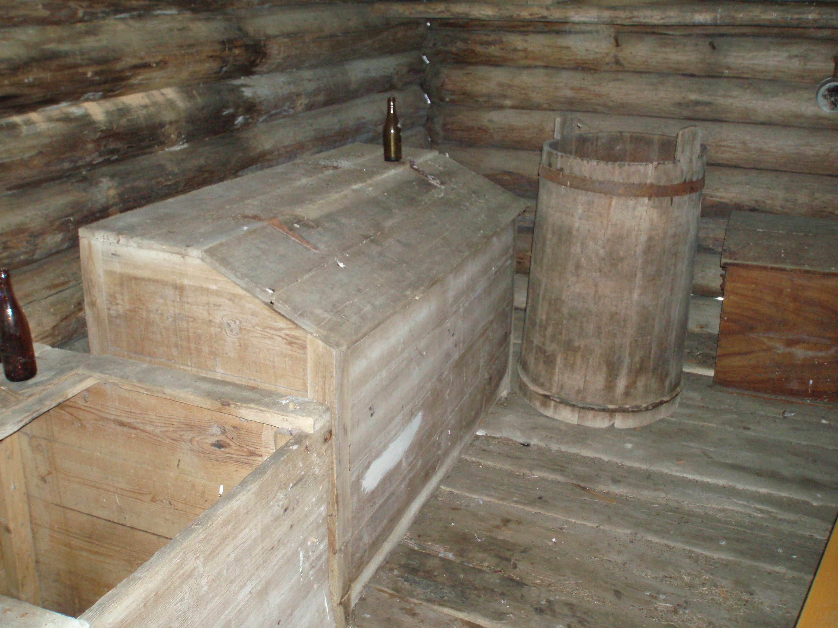 Inside "Stabbur"